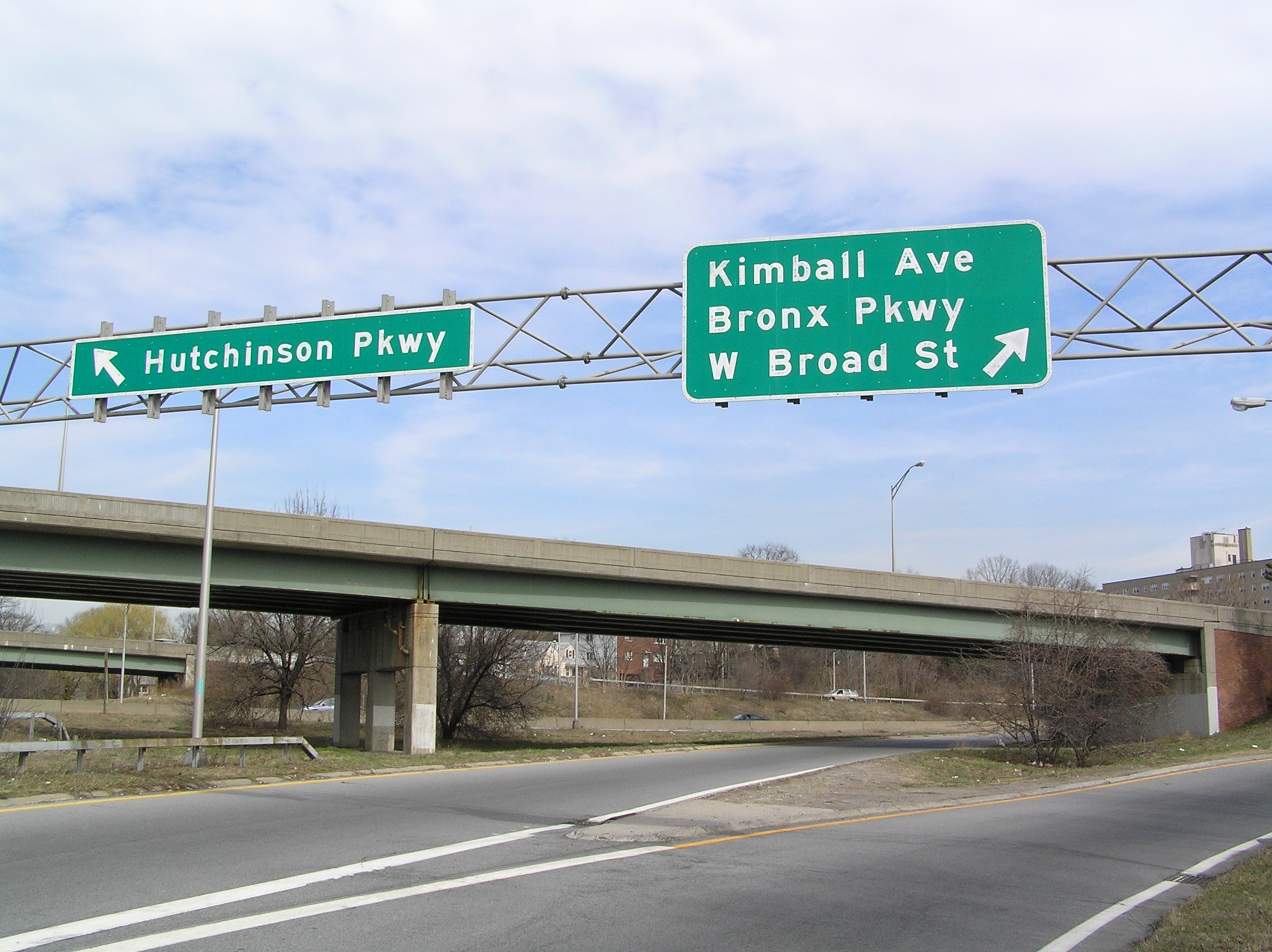 This photograph was taken adjacent to the Cross County Shopping Center in Yonkers. The picture depicts the eastbound Cross County Parkway heading from Yonkers towards Mount Vernon.